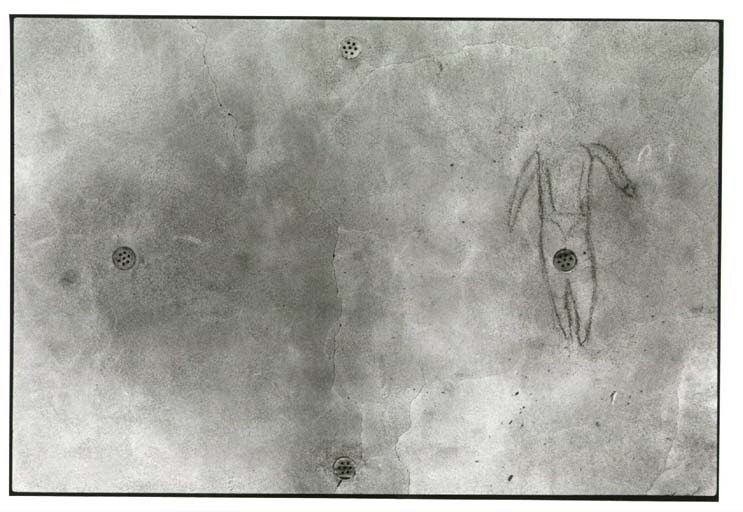 Stanislav Tůma Exteriéry Name: Stanislav Tůma - Plavec pro B.D. 1981